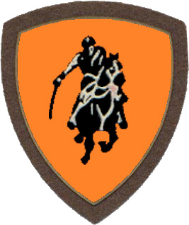 Coat of Arms of the Italian Army Armoured Brigade Vittorio Veneto